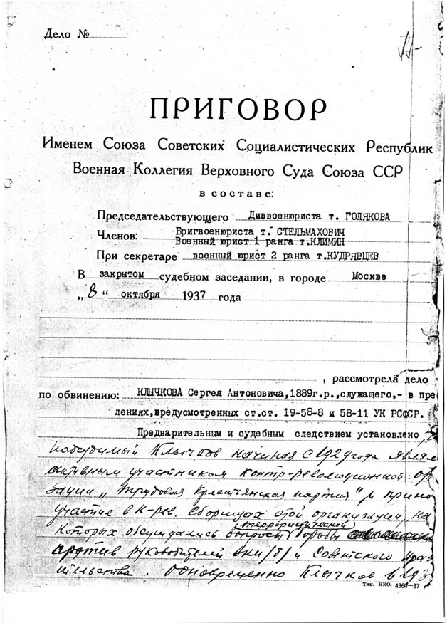 Serguei Klychkov - soviet writer, Judical decision (death sentence) 1937